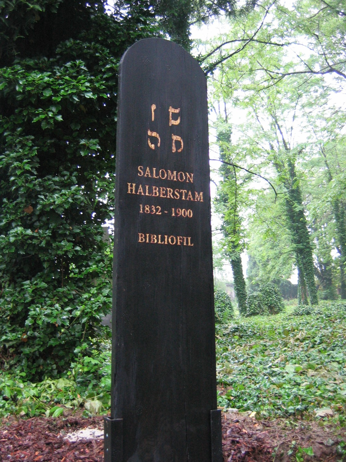 Initials of the name SOLOMON ZALMAN (or JOACHIM) HAYIM HALBERSTAM, scholar and bibliophile of Poland known from his acronym as ShaZHaH, in Rashi script : ש : ז : ח : ה : Grób Salomona Halberstama na cmentarzu żydowskim w Bielsku-Białej